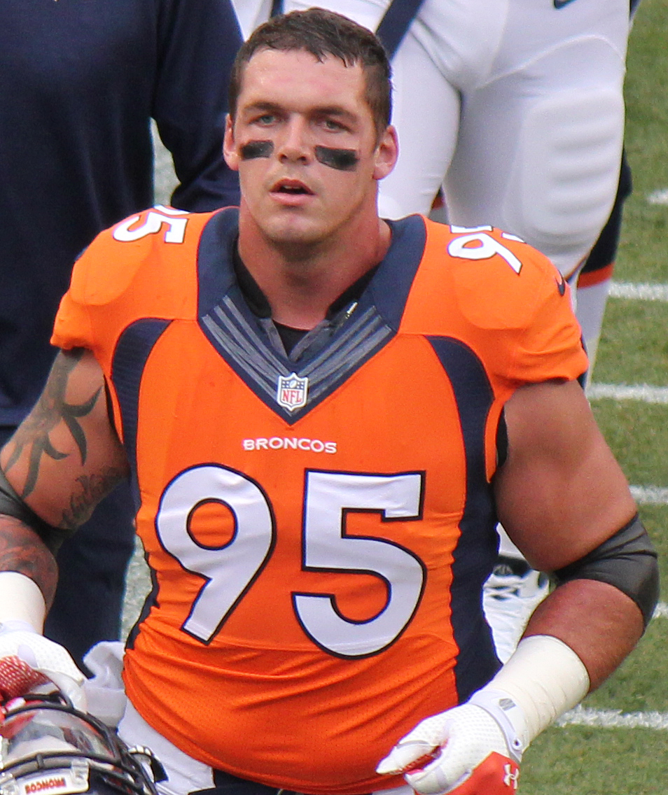 Denver Broncos defensive end, Derek Wolfe, playing against the Indianapolis Colts on September 7, 2014.